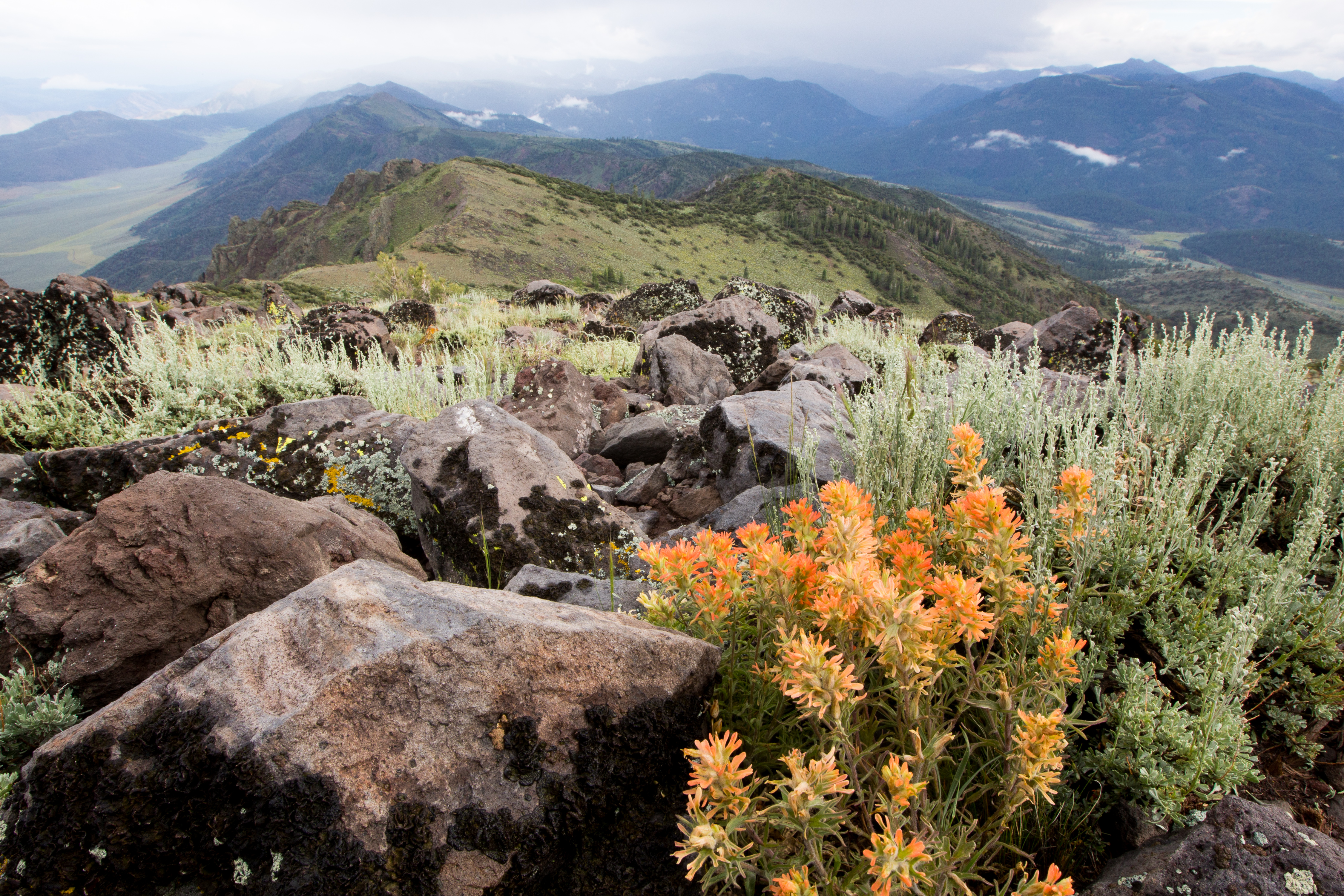 Ending the day with a few colorful sunrise shots from Slinkard Wilderness Study Area in California - taken by BLMer Bob Wick this morning. The view - from a 9,000-foot (2,700 m) peak just south of Monitor Pass - looks towards Topaz Lake, Nevada. #mypubliclandsroadtrip Although the winter had record low precipitation levels in the Sierra, moisture in late spring and summer has resulted in a good wildflower bloom. A note from Bob - I not adjust the color saturation on this -- it was just one of those "saturated" mornings!